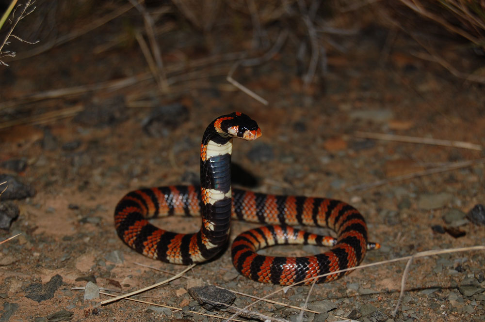 Cape Coral Snake, Aspidelaps lubricus, found on road at night.